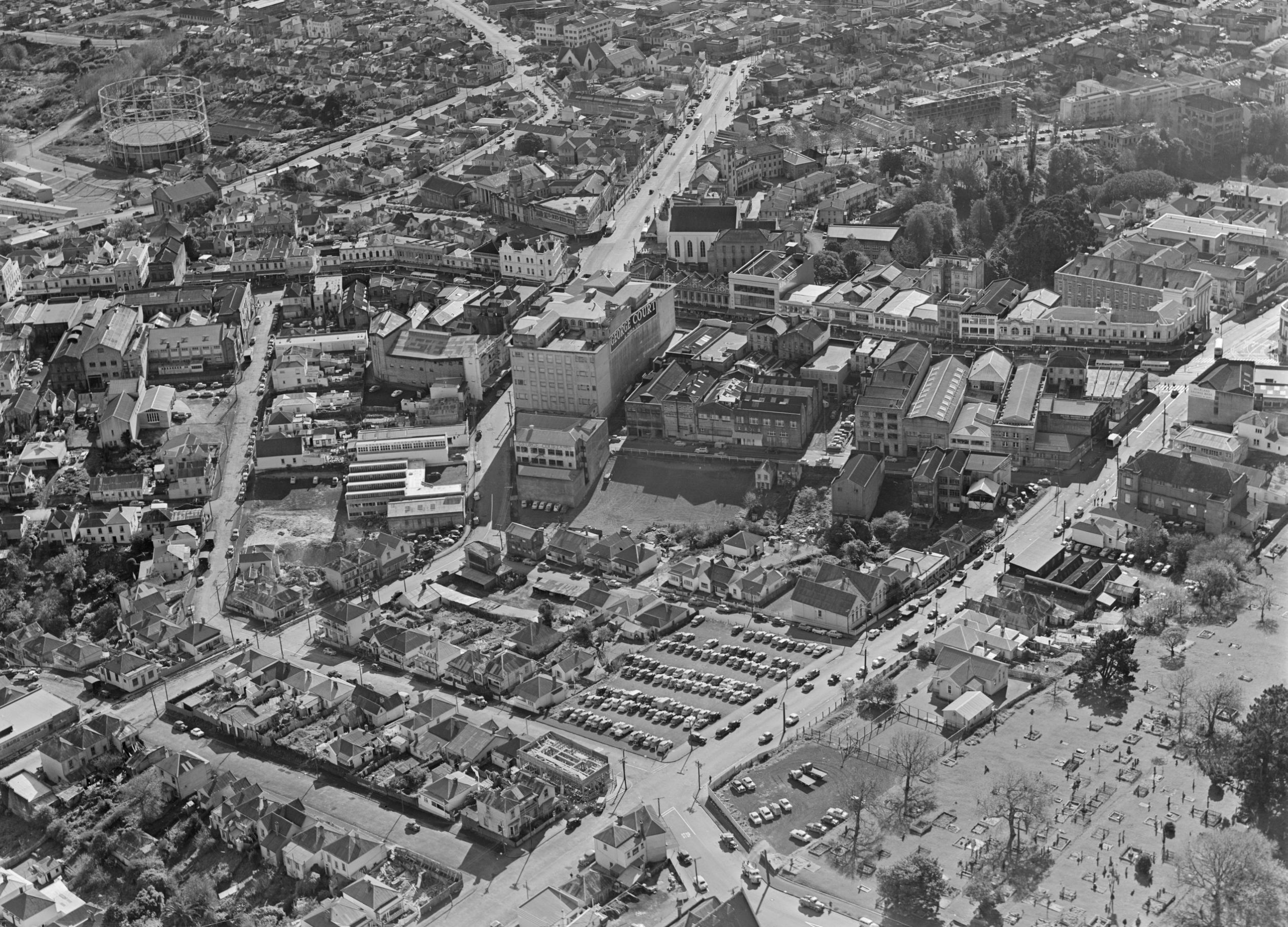 Looking northwest over Karangahape Road at the southern end of what will be known as the Auckland CBD. Pitt Street running away into the northwest, Upper Queen Street in the front-foreground. Particular visible buildings are the gasometer in the northwest, and the 'George Court' department store in the left-centre. Coordinates approximate, somewhere above the eastern Central Motorway Junction of today. Extended information on origin webpage reads: Aerial view of Karangahape Road and surrounding area, Auckland. Photograph taken 4 June 1957 by Whites Aviation.